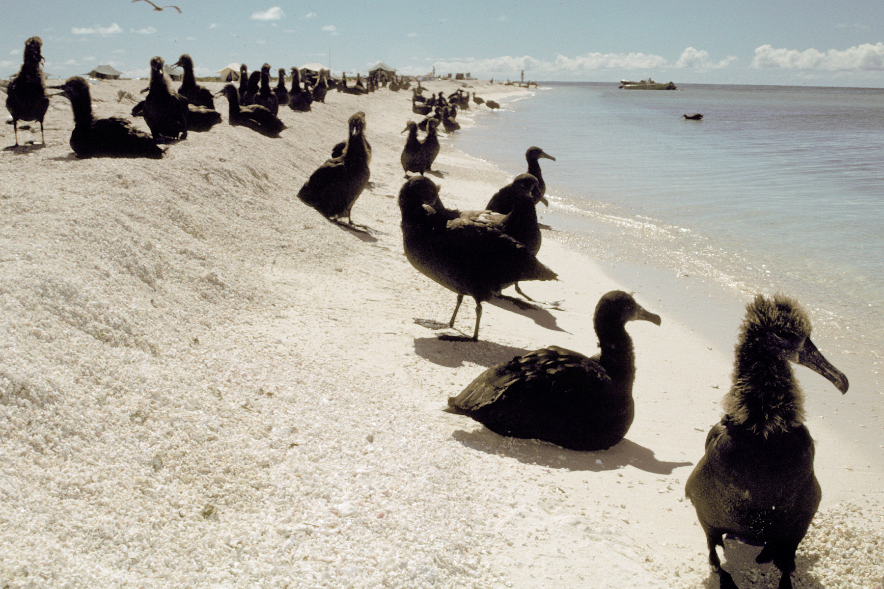 Coronopus didymus (habitat). Location: Pearl and Hermes Atoll, Southeast Island